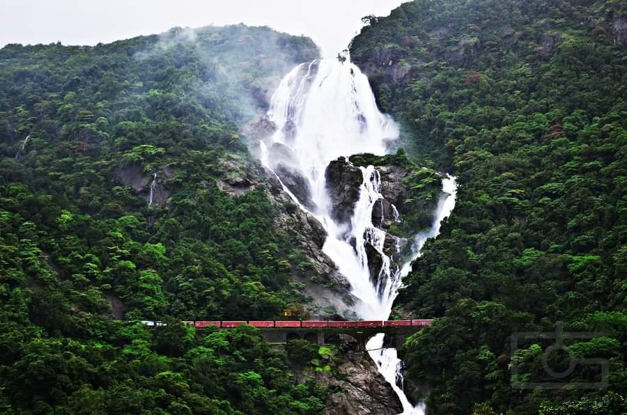 Dudhsagar waterfall in kullem Goa